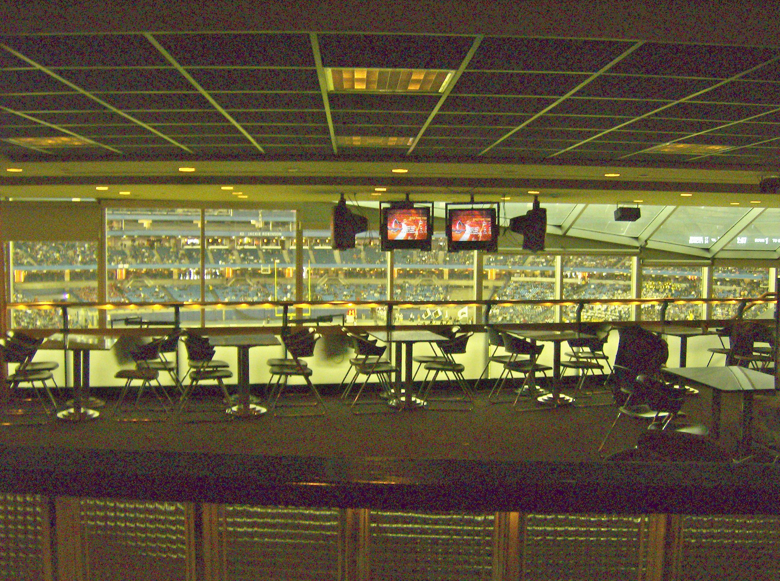 self made 16:44, 7 January 2007 . . Mikerussell . .2576 x 1920 (1,168,463 bytes)